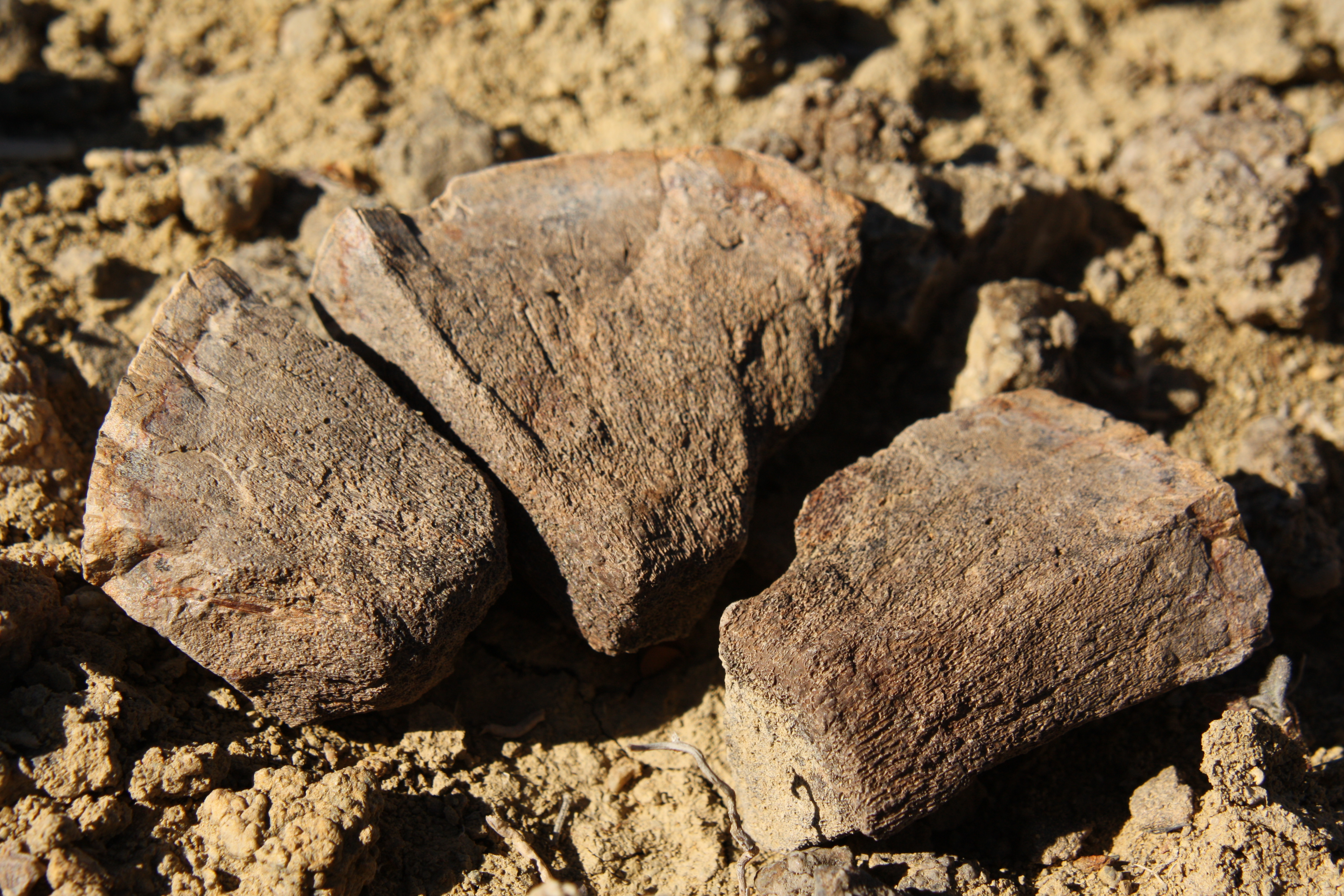 Referred frontoparietal dome of the small pachycephalosaur Texacephale langstoni (Dinosauria: Ornithischia: Pachycephalosauridae) found on the ground in the Aguja Formation, Big Bend National Park, west Texas, USA. Photograph by Nick Longrich